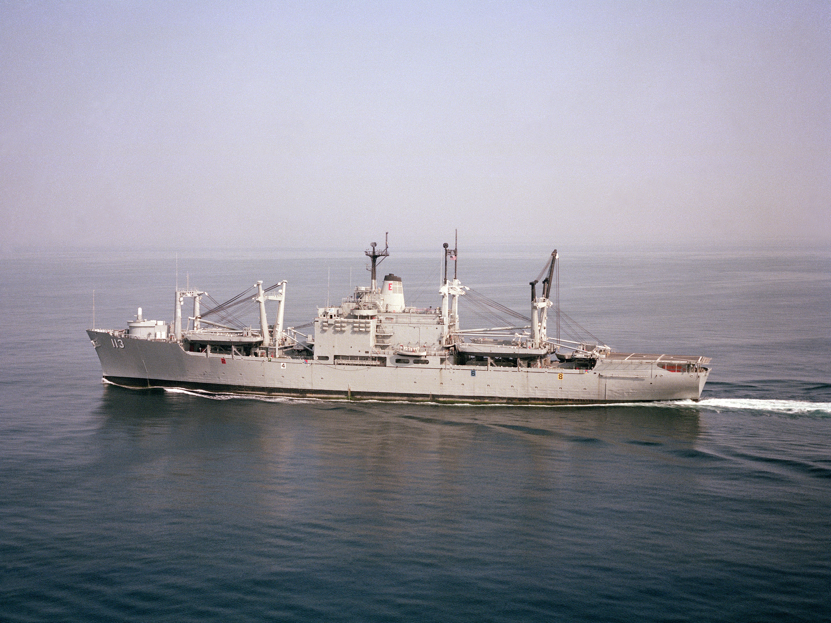 The U.S. Navy amphibious cargo ship USS Charleston (LKA-113) underway off the Virginia Capes in 1987.